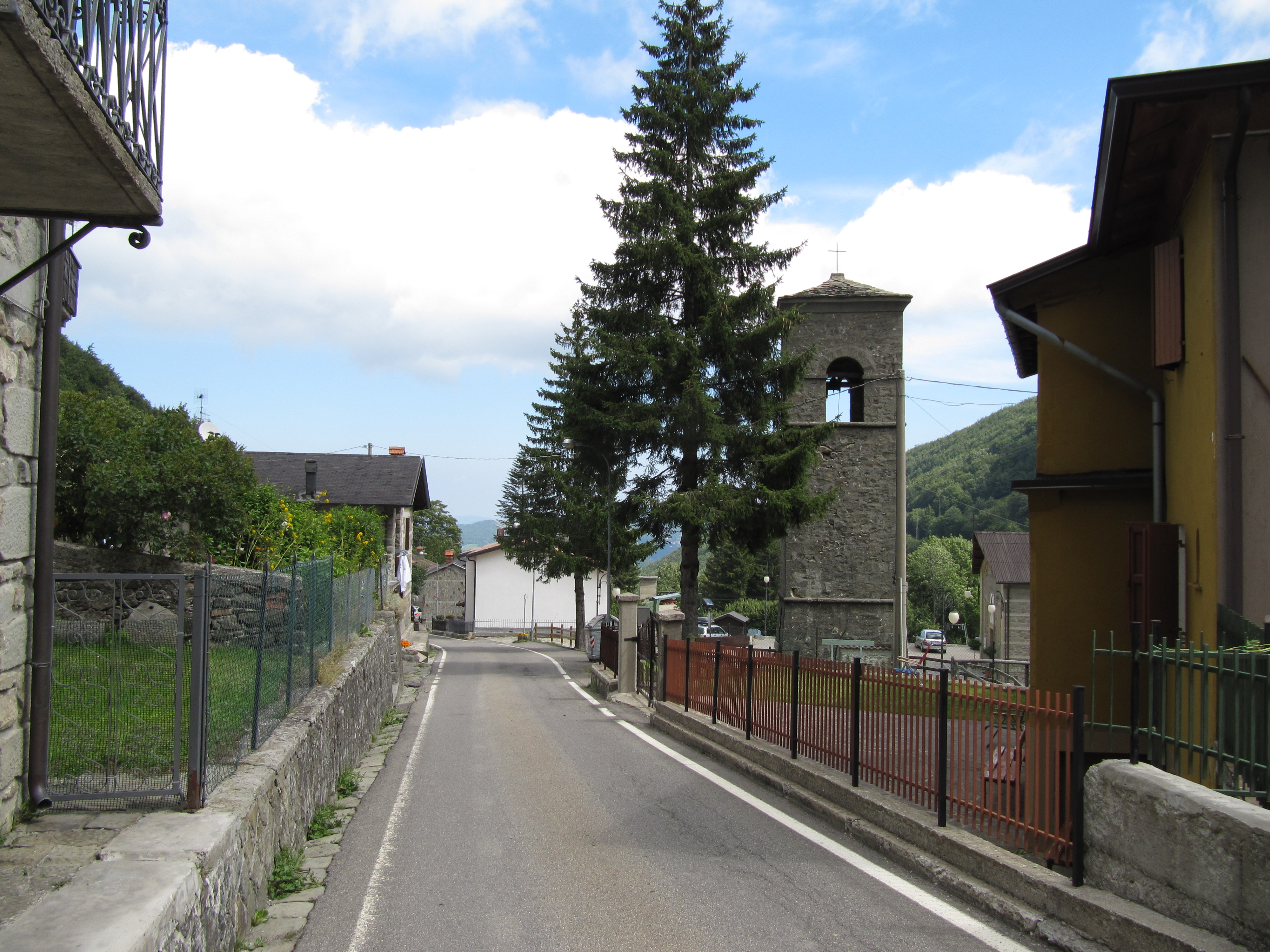 Uno scorcio di Ospitaletto.